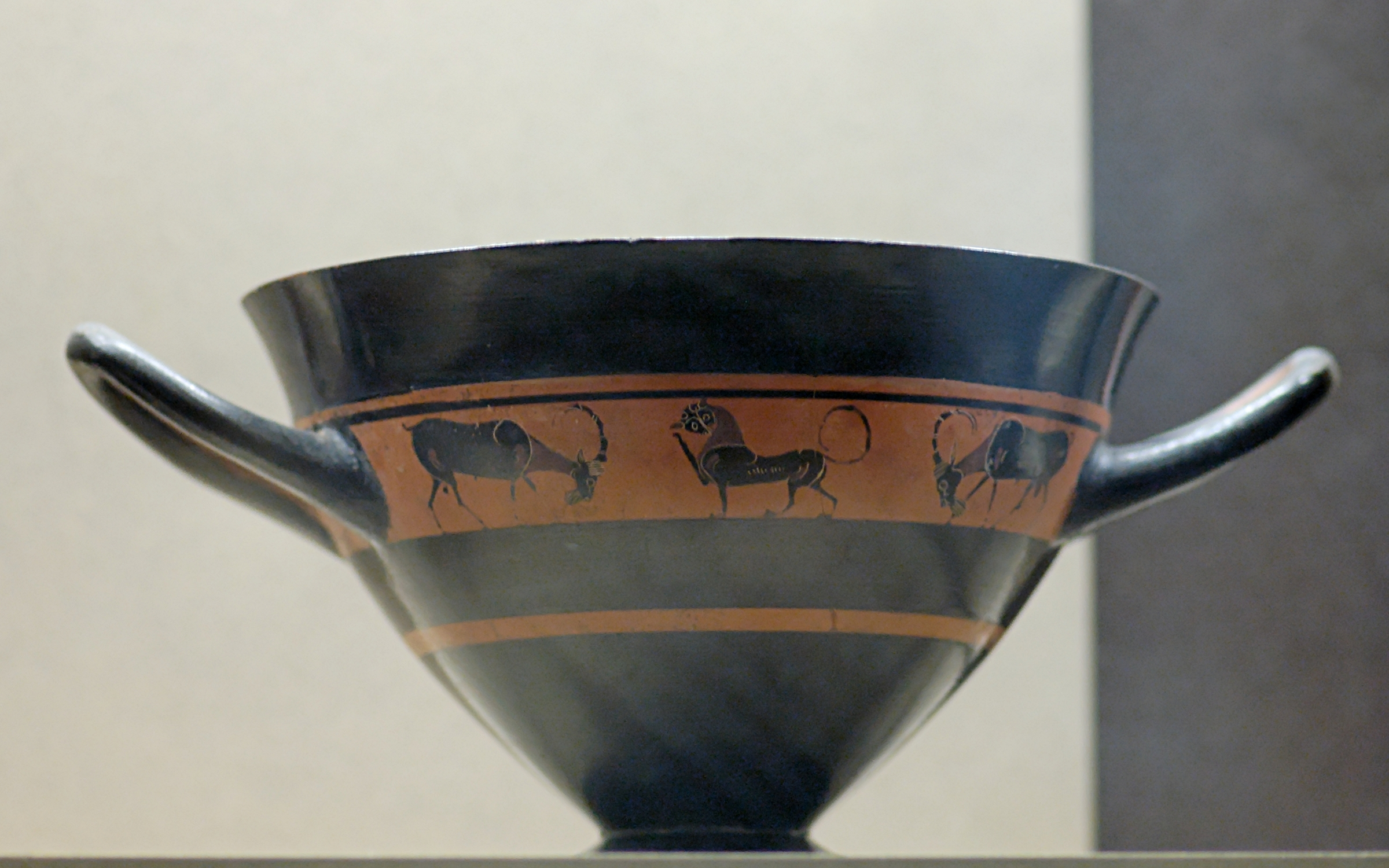 Attic black-figure skyphos of the Hermogenes type, ca. 550 BC.